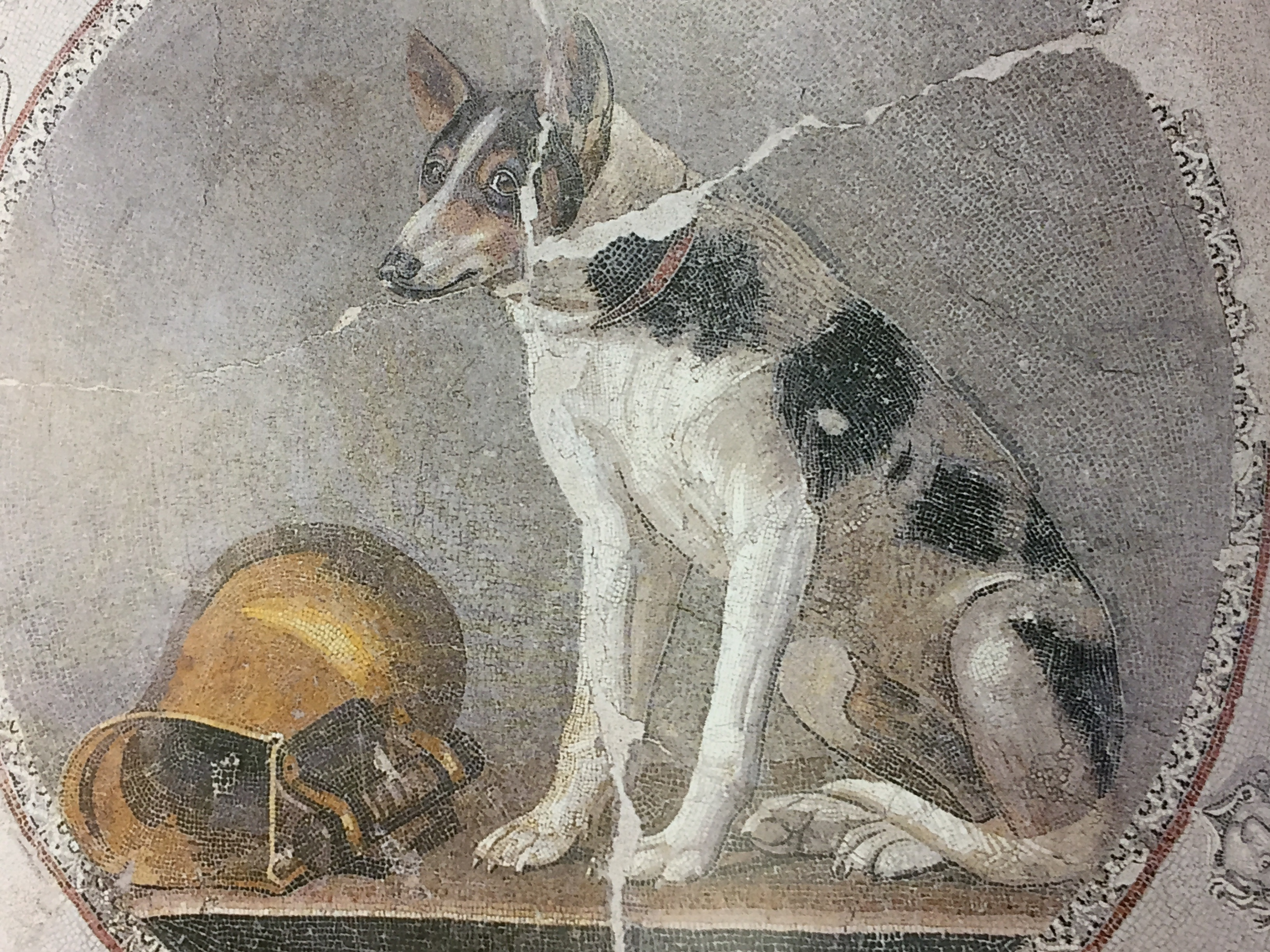 Excavated from the grounds of the New Alexandria Library in 1993, this Ptolemaic mosaic from Hellenistic Egypt, dated between 200 - 150 BC, is now located in the Greco-Roman Museum of Alexandria, Egypt. While it is slightly damaged at the center with cracks and fragmentary along the sides (surrounded by a grey lion-head motif), this mosaic depicts a realistic scene of a male dog with a gilded metal askos vessel (for containing water or wine) with looped handles lying nearby. The rich variety of colored tesserae pieces adds depth, lighting, and shading to the scene similar to Hellenistic Greek paintings of the time period. It could represent a household owner's pet, or perhaps it implies a domestic banquet had occurred and the askos has been emptied for the occasion.